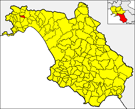 Locator map of the municipality of Roccapiemonte (red) within the Province of Salerno